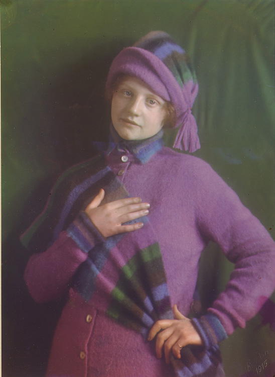 Dührkoop, Rudolf 1915 Portrett, kvinne i halvfigur. 22 x 15,9 Farben-photographic system Richtter. NMFF.000495